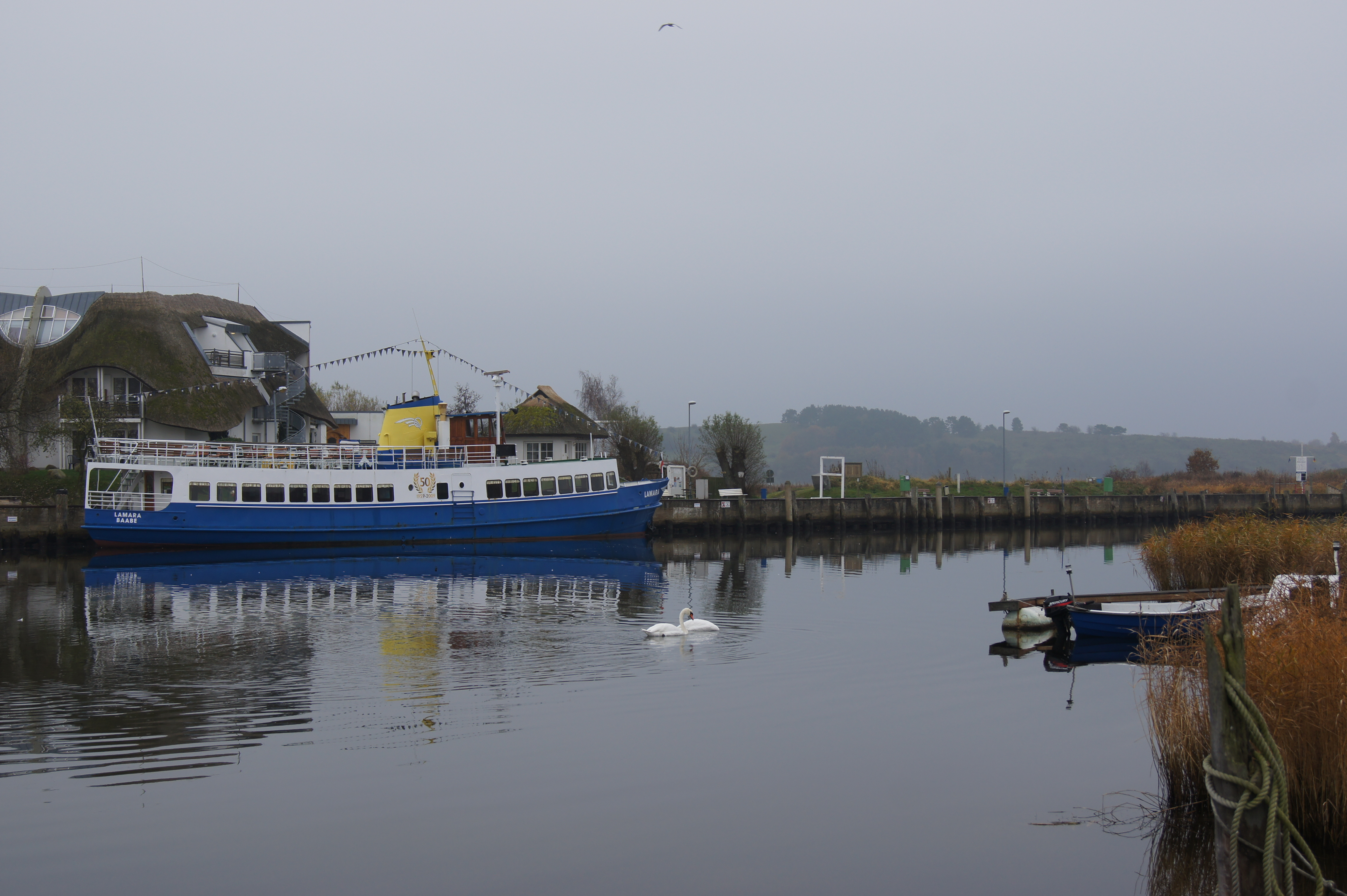 Sellin (Moritzdorf), : The Baaber Bek